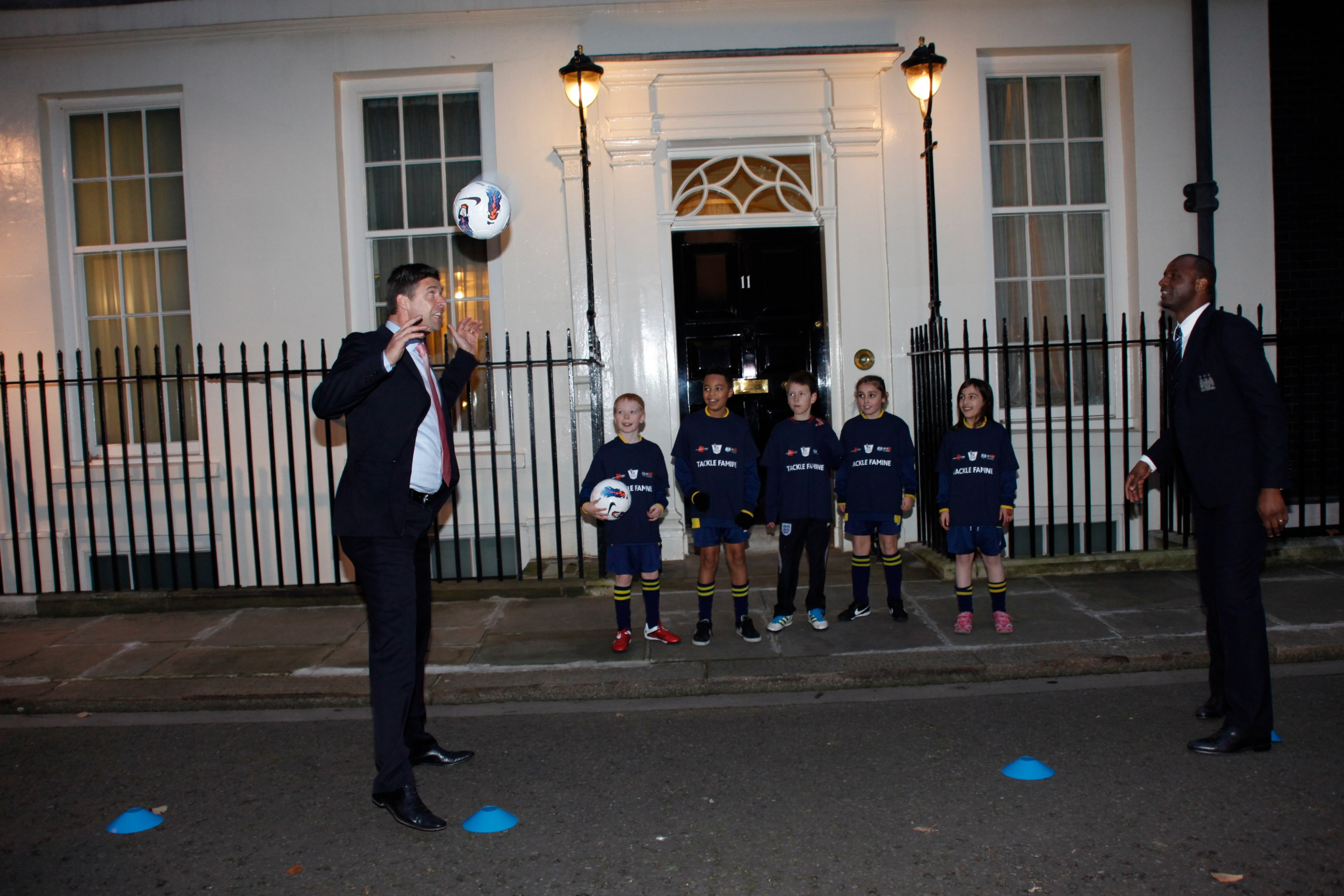 Schoolchildren from Gillespie Primary School, Islington, London, help football legends Patrick Vieira and Niall Quinn, Chancellor George Osborne MP, and Minister of State for International Development Alan Duncan MP, to launch 'Tackle Famine', a partnership between the Premier League and the Disasters Emergency Committee (DEC), to raise money for the DEC East Africa Crisis Appeal, at No. 11 Downing Street. From 26-28 November 2011, Premier League football grounds up and down the country will donate free advertising space to raise funds for the DEC appeal. Football fans will be encouraged to Tackle Famine by texting FOOD to 70000, to donate £5 to the appeal. The UK Government has helped set up the partnership. British aid from the government is already helping to feed more than 2.4million people in the drought-stricken Horn of Africa region. The DEC is a charity that brings together 14 leading UK aid agencies, to raise funds when there is a major emergency in a poorer country overseas. The DEC appeal has already raised more than £72million in donations from the British public, but more funds are still needed. Find out more at: Picture: Russell Watkins/DFID Terms of use This image is posted under a Creative Commons - Attribution Licence, in accordance with the Open Government Licence. You are free to embed, download or otherwise re-use it, as long as you credit the source as 'Russell Watkins/DFID'.